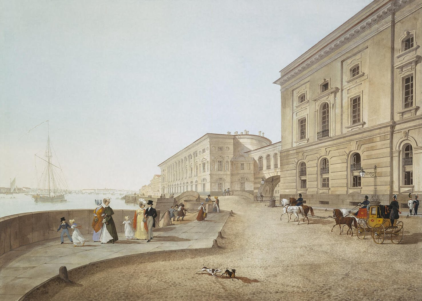 Palace Embankment near Hermitage Theatre by Karl Beggrov, 1824.